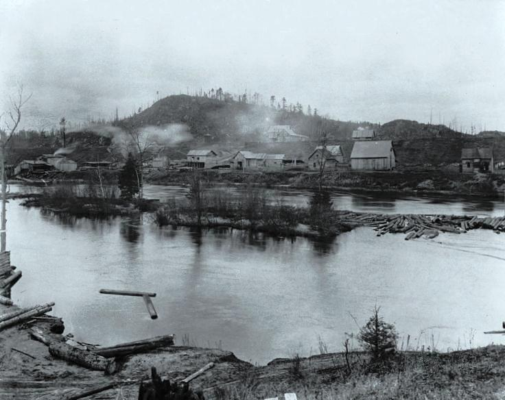 Photograph, Village of Labelle, QC, about 1890, Silver salts on paper mounted on card - Albumen process, 19 x 24 cm